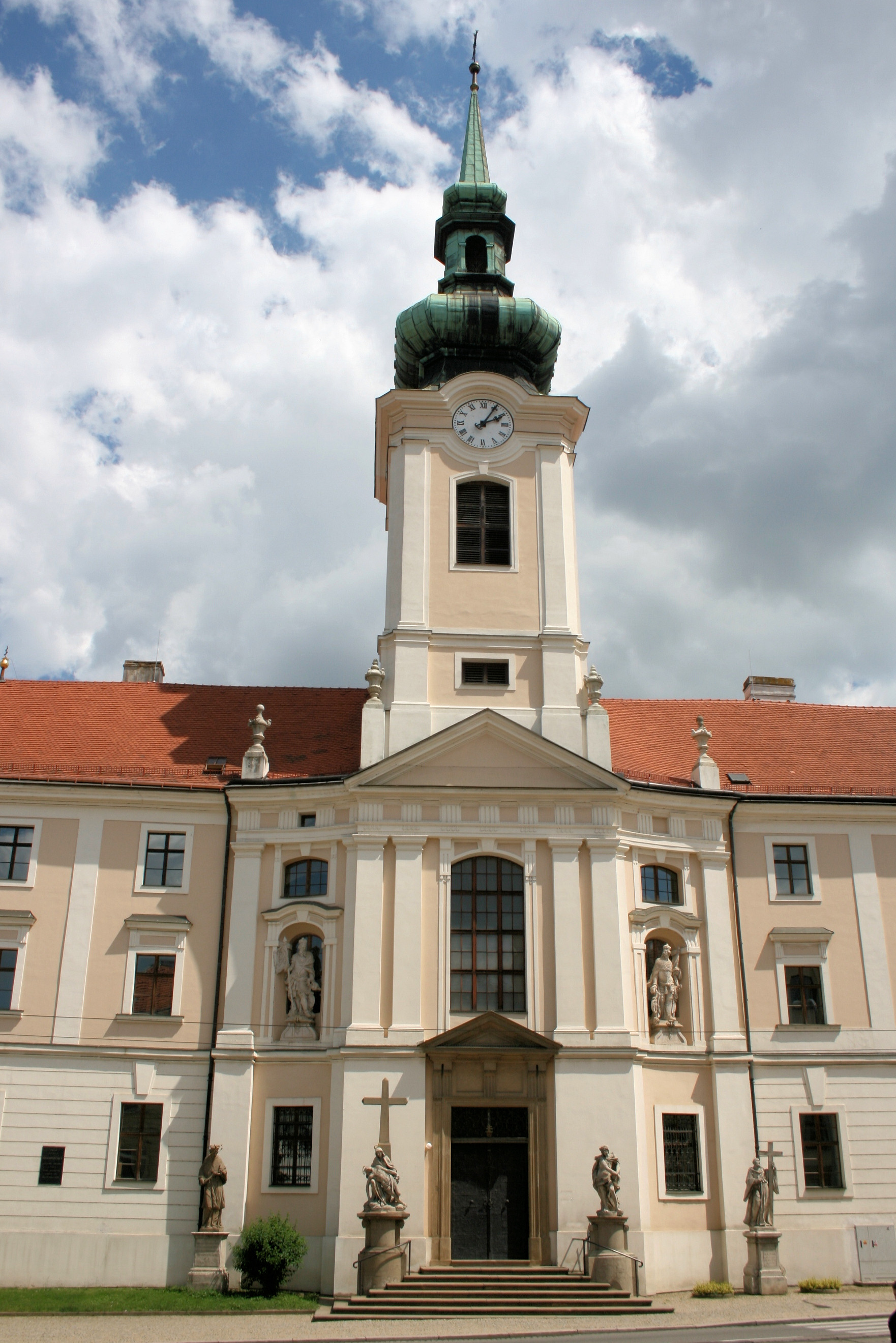 St. Leopold church with Monastery of Brothers Hospitallers of St. John of God in Brno, Czech Republic.